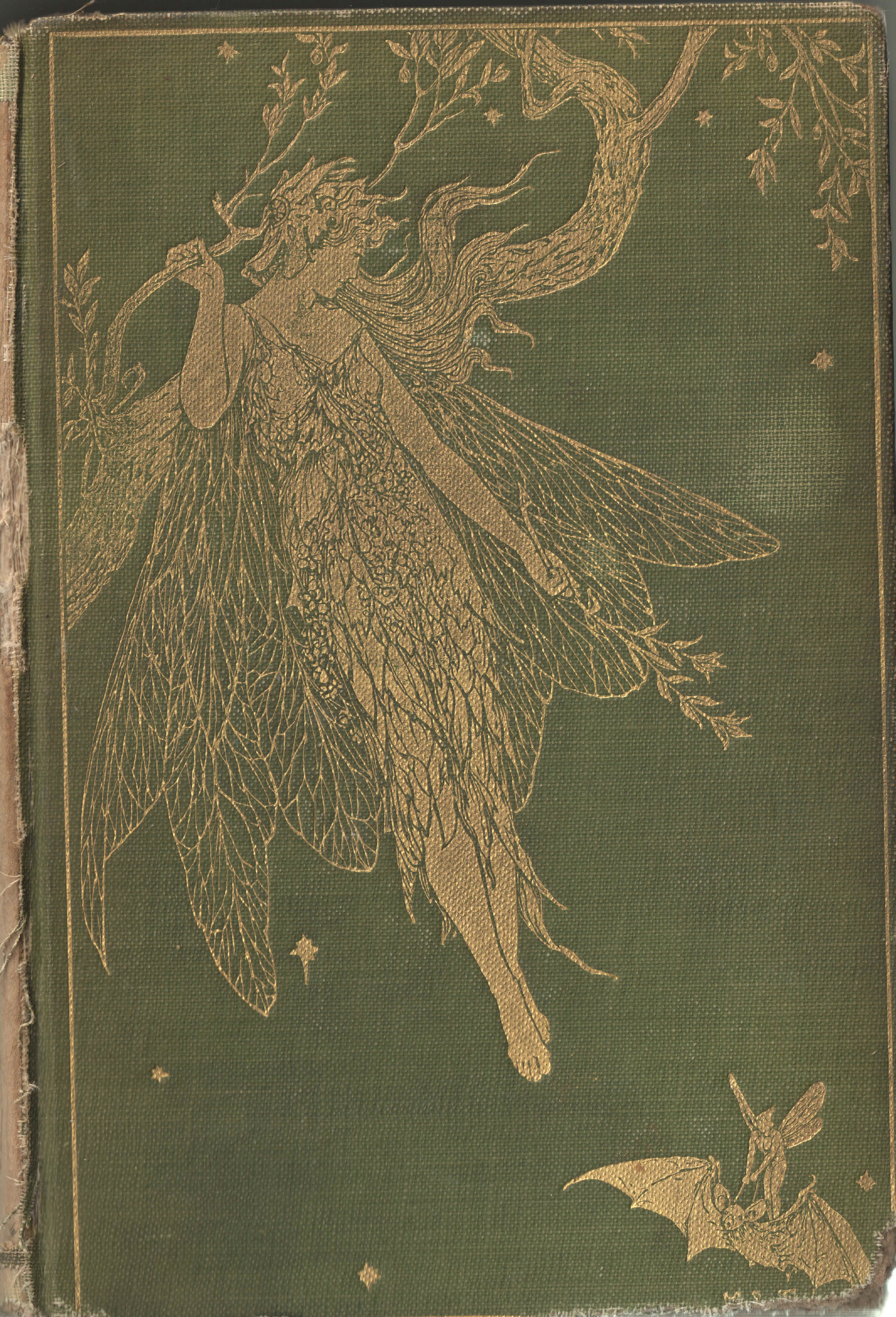 Cover of The Olive Fairy Book, Andrew Lang, Cover, 1st edition 1907